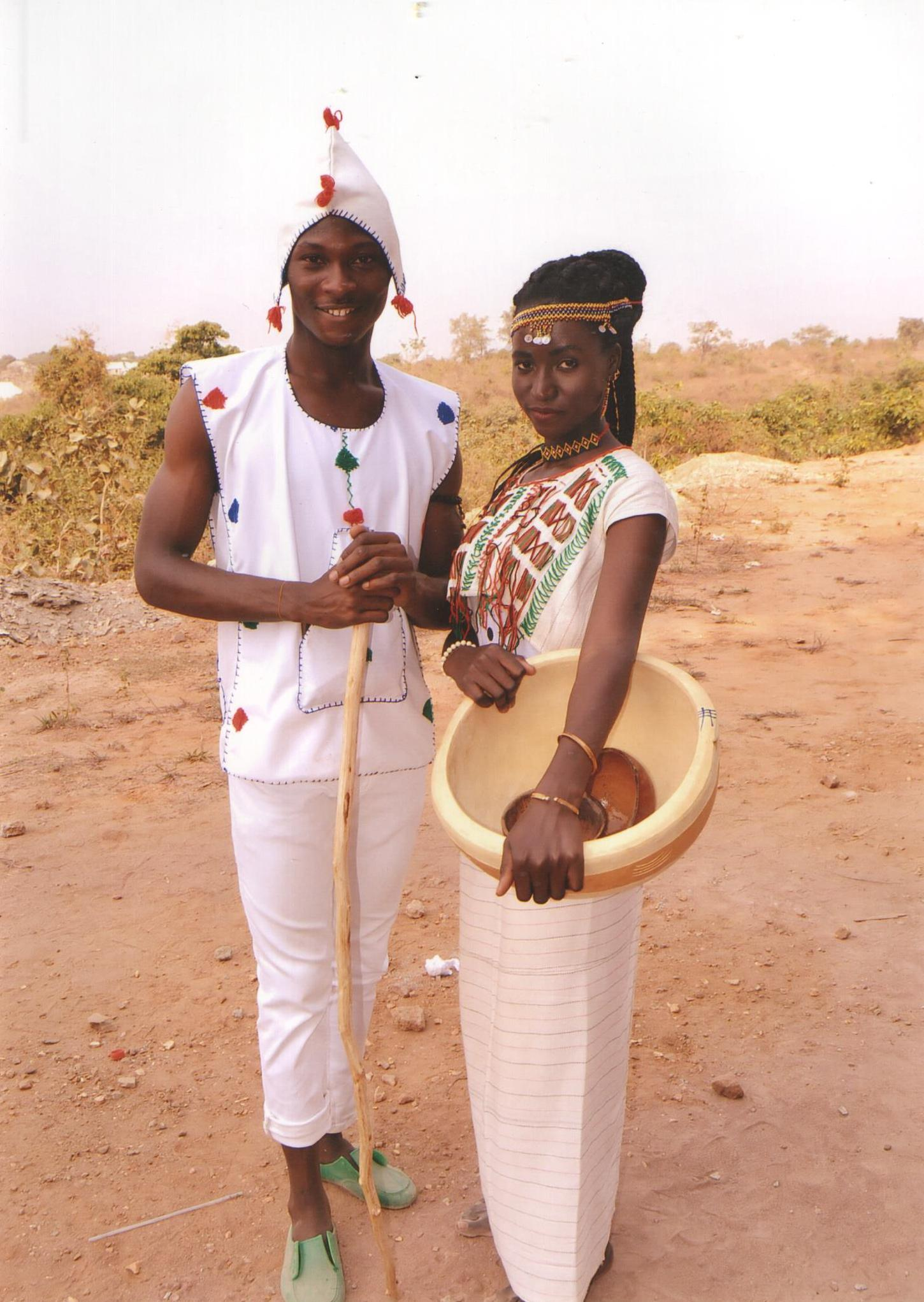 A Fulani man (me) and a fulania (my friend). Gotten from Veritas University Cultural Day, 2015, at Veritas University, Abuja (The Catholic University of Nigeria). This is an image of Cultural Fashion or Adornment from Nigeria